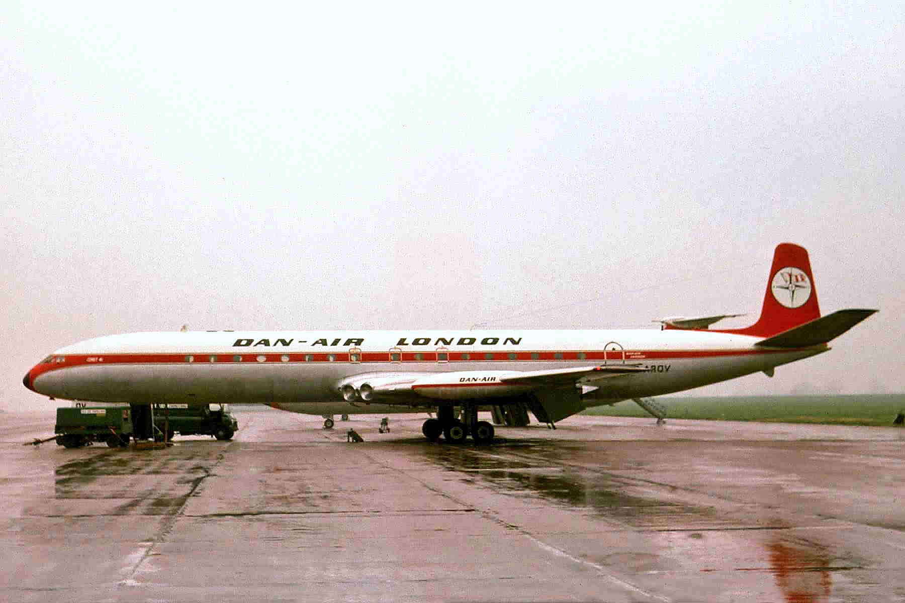 A picture of an airplane (name of it is on the file name).